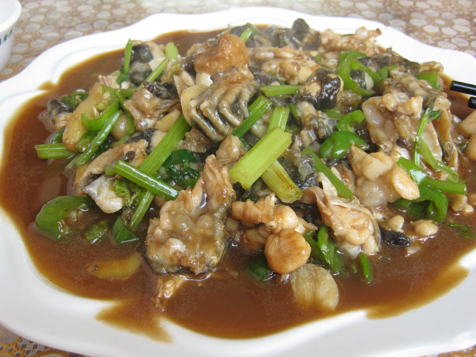 Cooked frog. Jianyang, Fujian, China